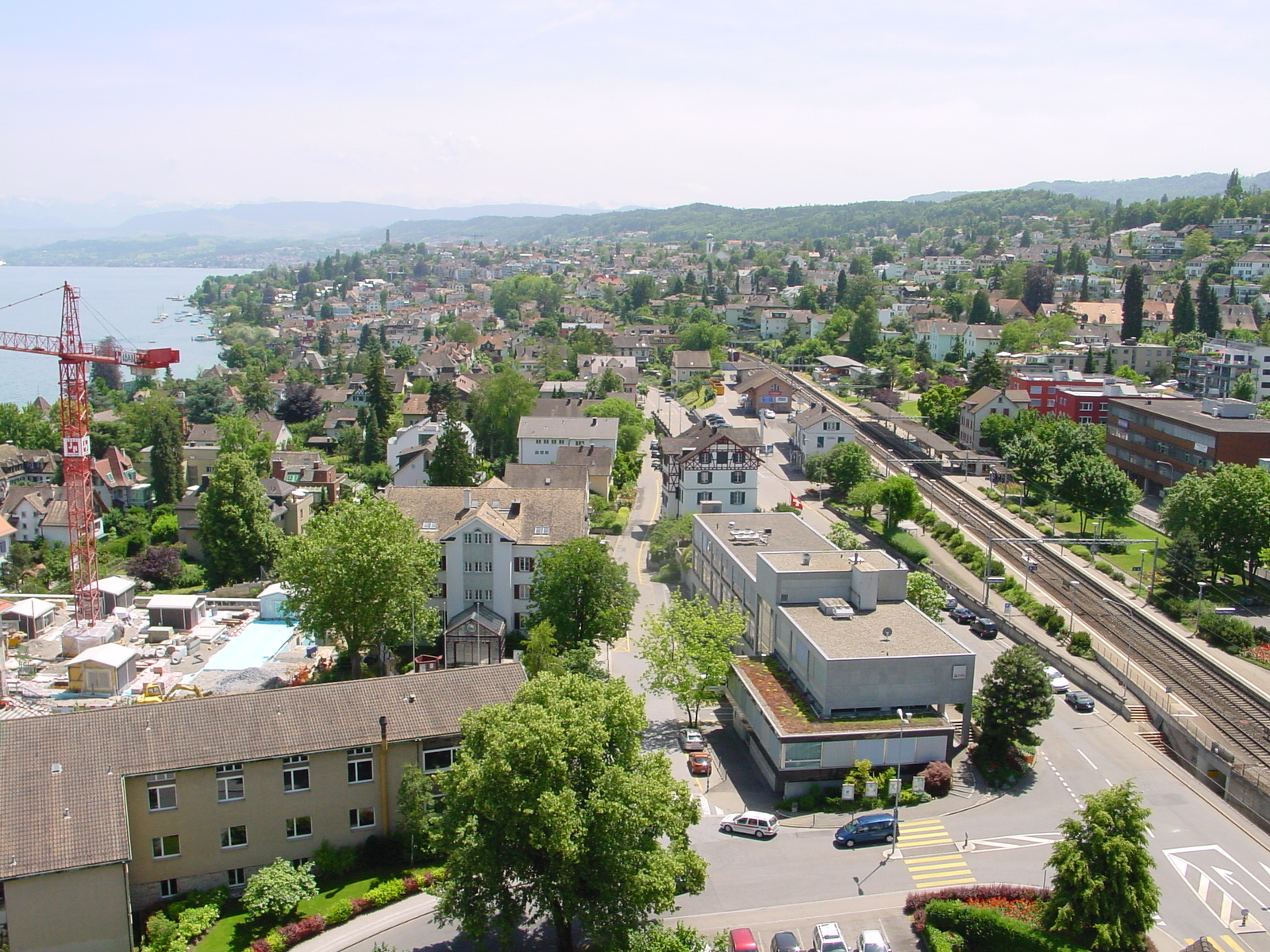 Picture take from the steeple of the church in direction to the railroad station